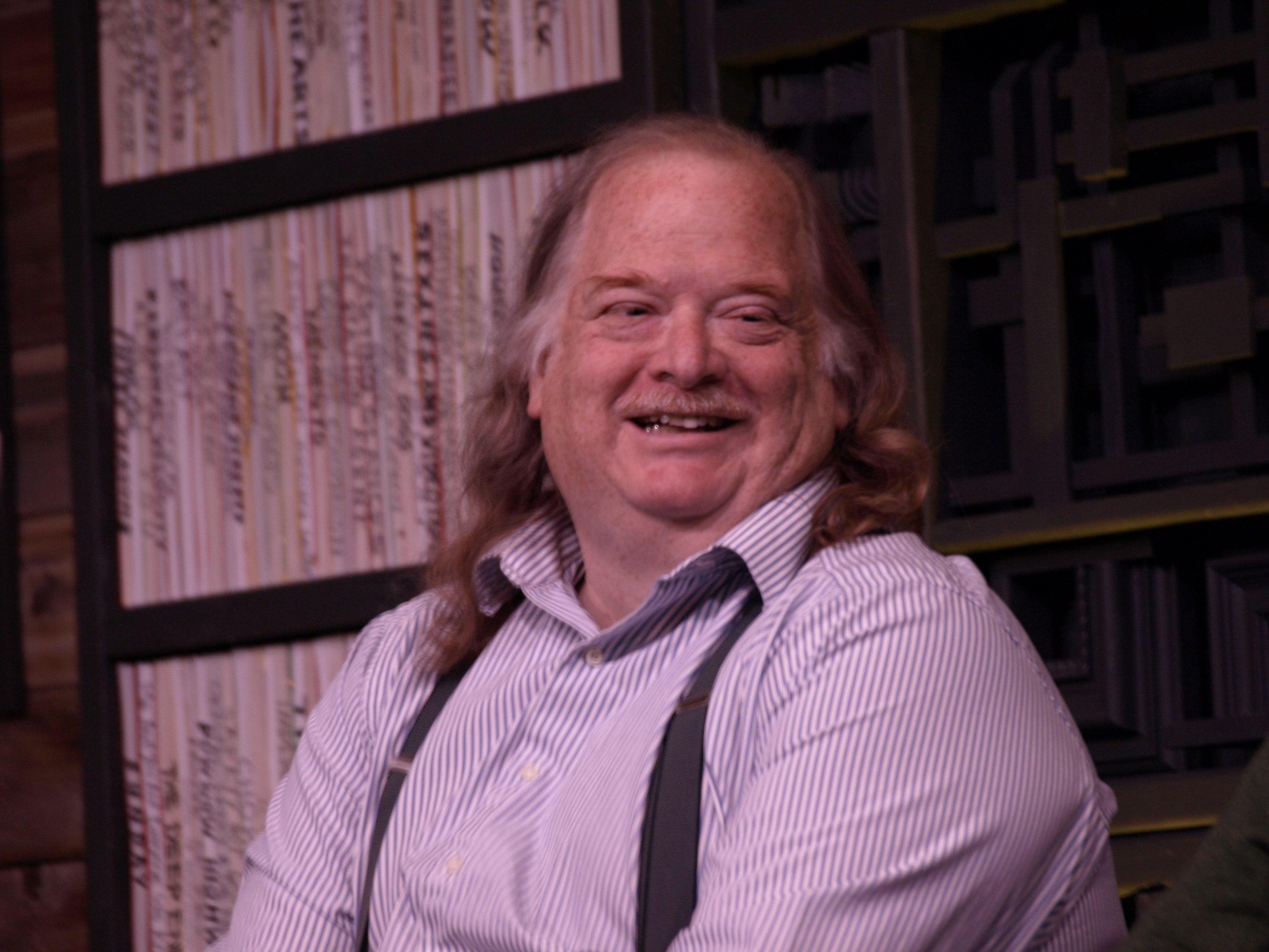 Jonathan Gold at sundance 2015